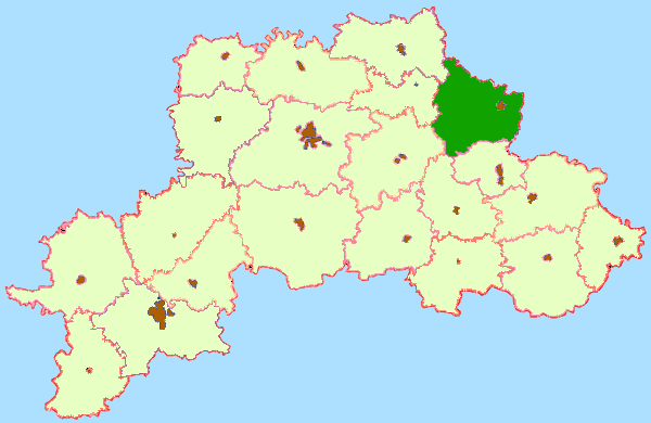 Mogilev Region map by Al Silonov